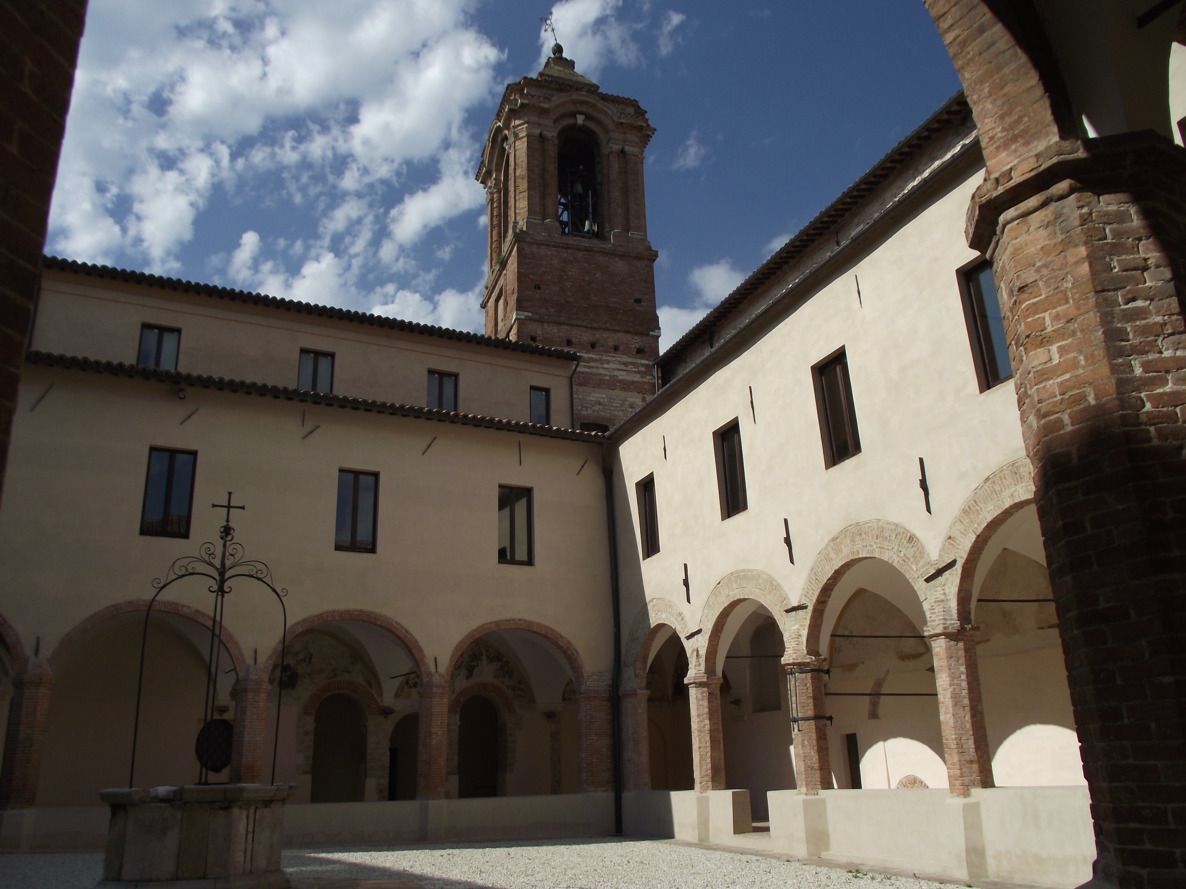 St. Benedict's Cloister, Fabriano - Italy